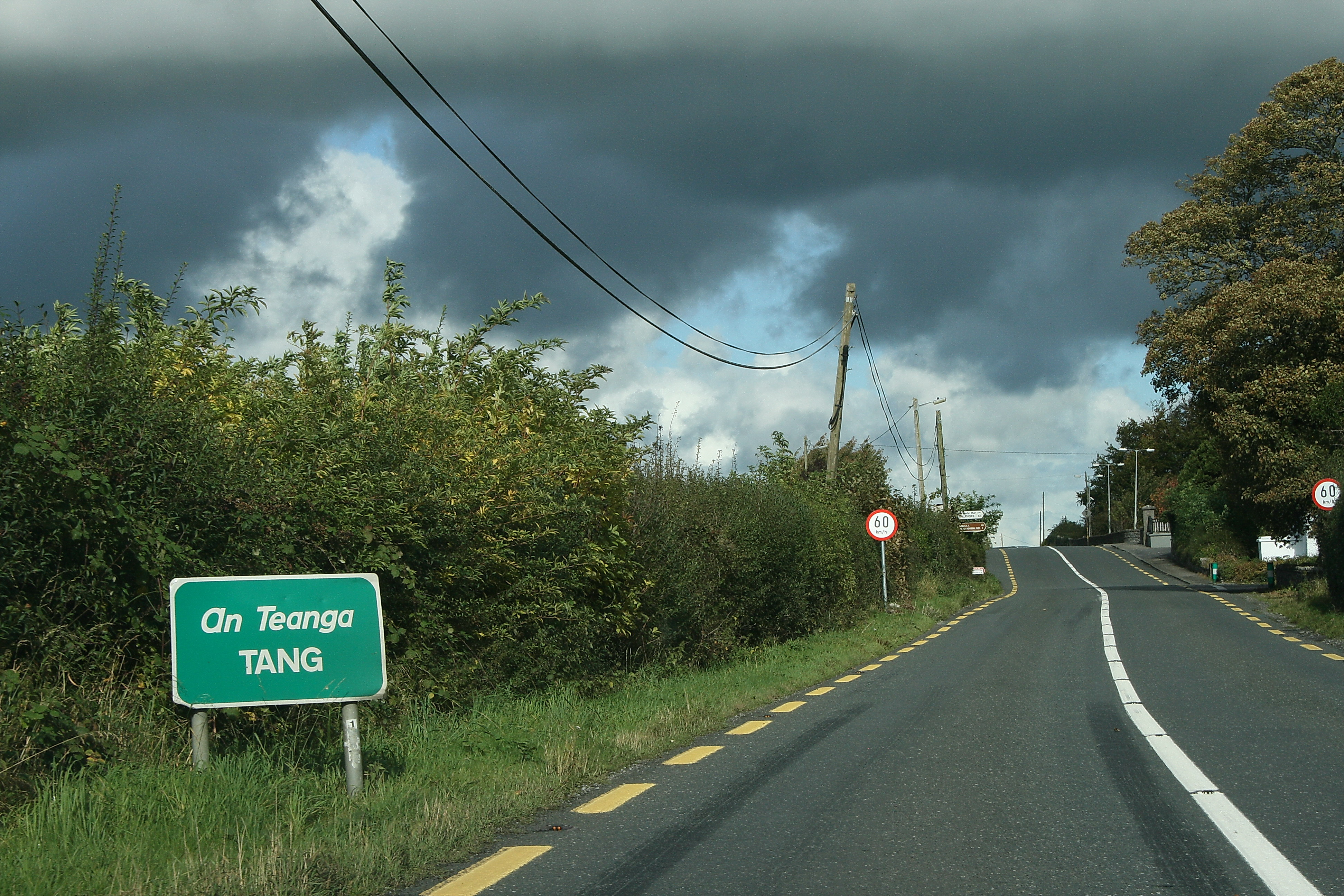 Tang, County Westmeath, near to Tang, Ireland. On the N55.